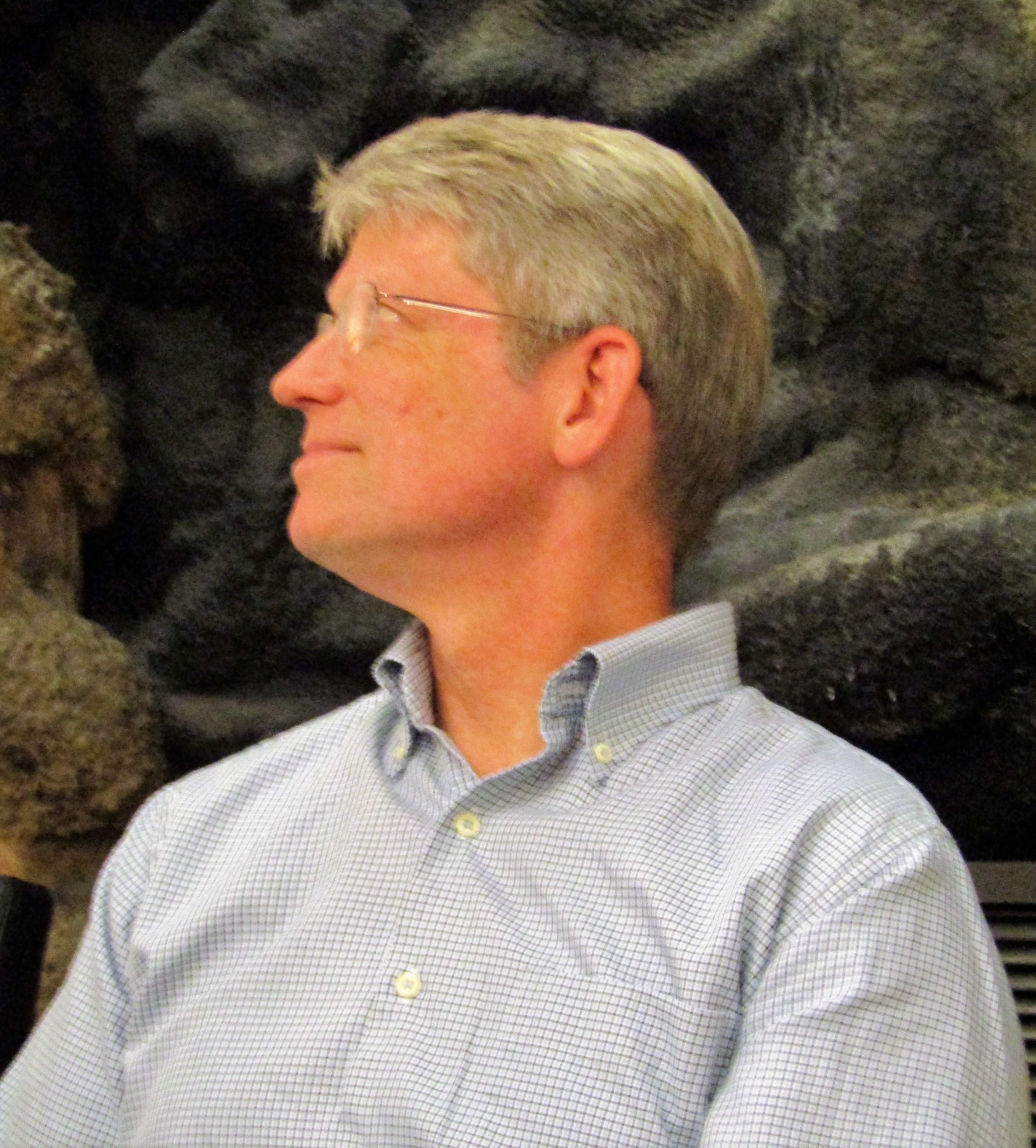 BYU professor George B. Handley at a book-reading event at Writ & Vision.